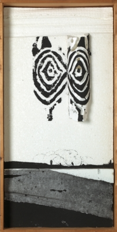 Siri Aurdal. JANUAR 1967. In the Norwegian National Museum's collection.